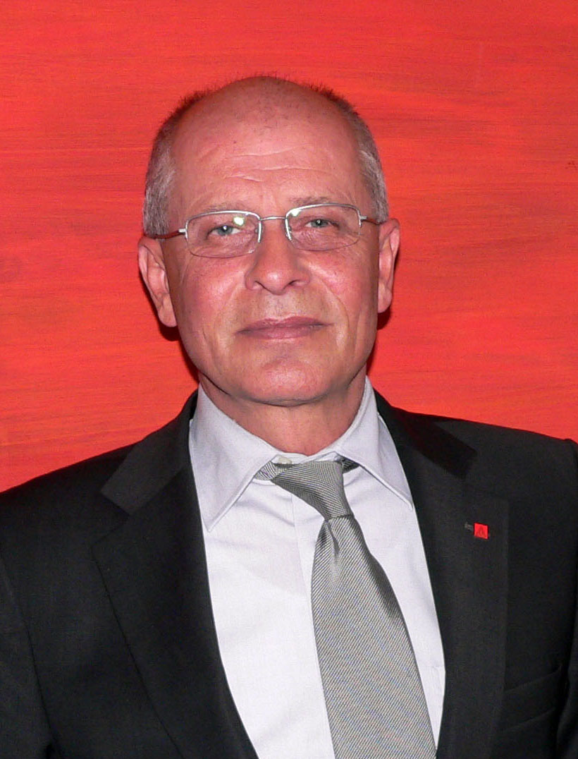 Ralf Stegner (SPD)(left), Berthold Huber (IG Metall)(center) and Wolfgang Mädel (IG Metall)(right) at the Arbeitnehmerempfang on April, 23rd 2009 in Kiel.